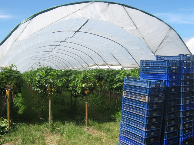 Strawberries ready for Wimbledon! These strawberries are under polytunnels to protect then from birds and pests. Also protects from the strong sunlight.